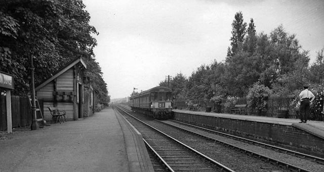 Burton Joyce Station, with train. View SW, towards Nottingham; ex-Midland, Nottingham - Newark - Lincoln secondary main line. A porter, but no passengers, watch a DMU to Lincoln (St Marks) arrive.